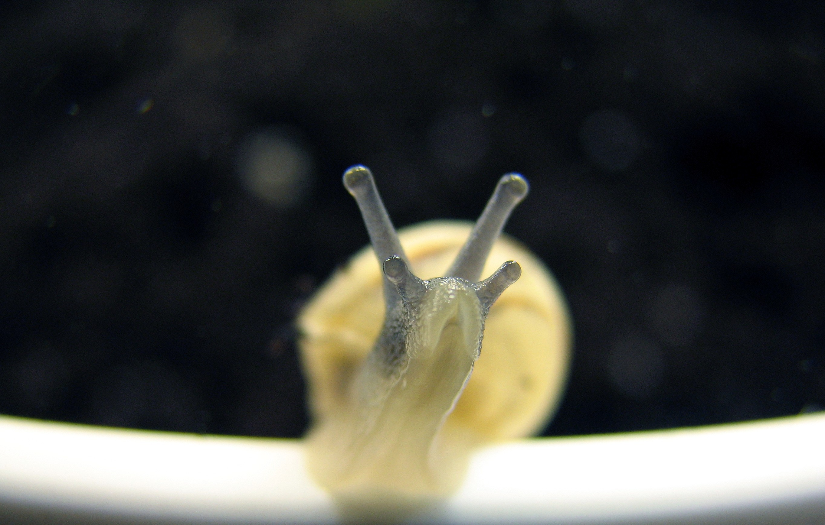 Front of snail. Actual size is 1 centimeter. Picture was taken in Greece.